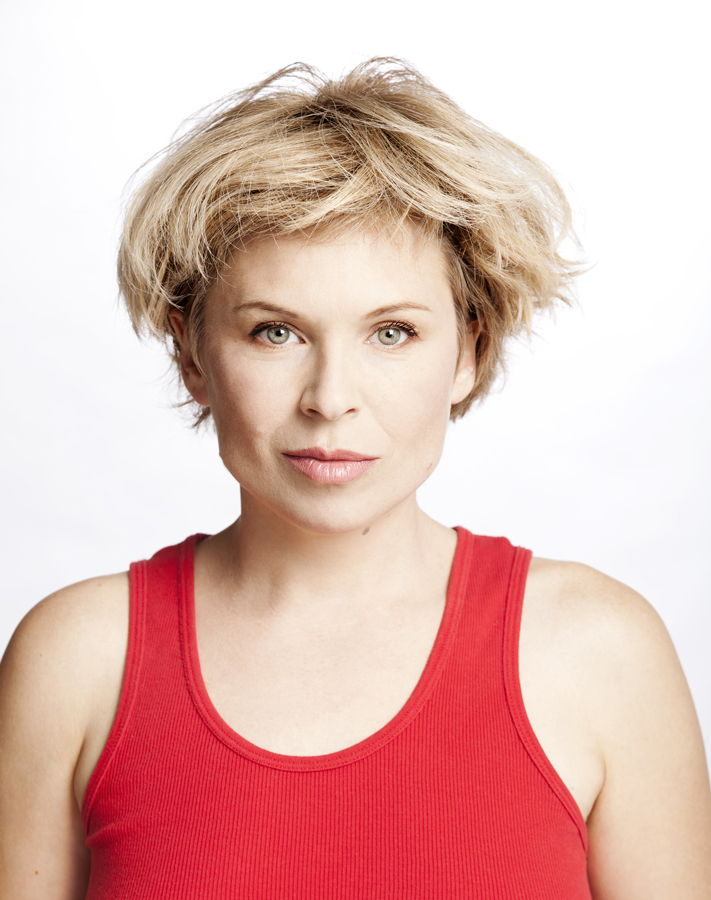 Photograph